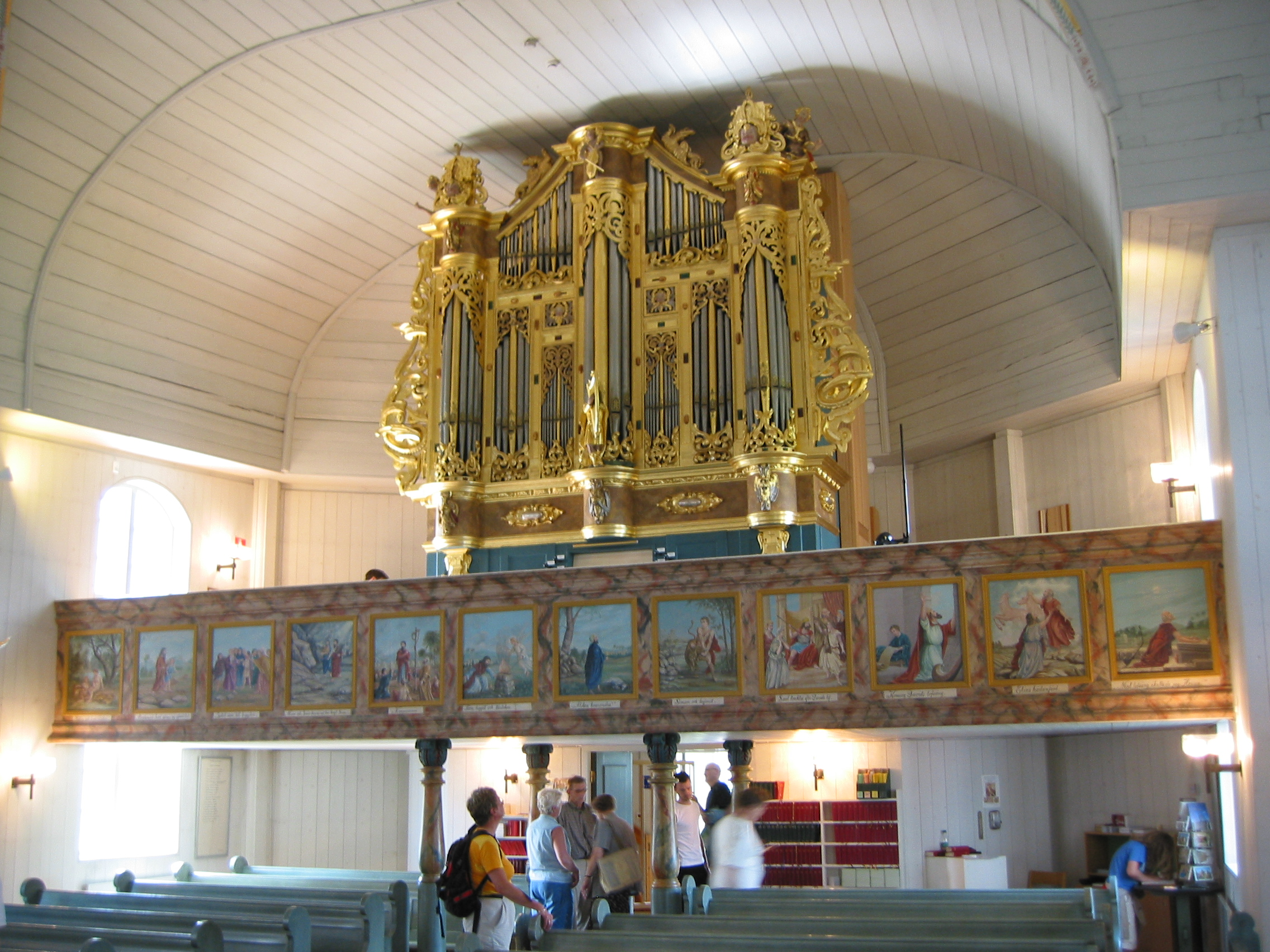 The oldest working church organ in Sweden, Övertorneå, Matarengi Church.